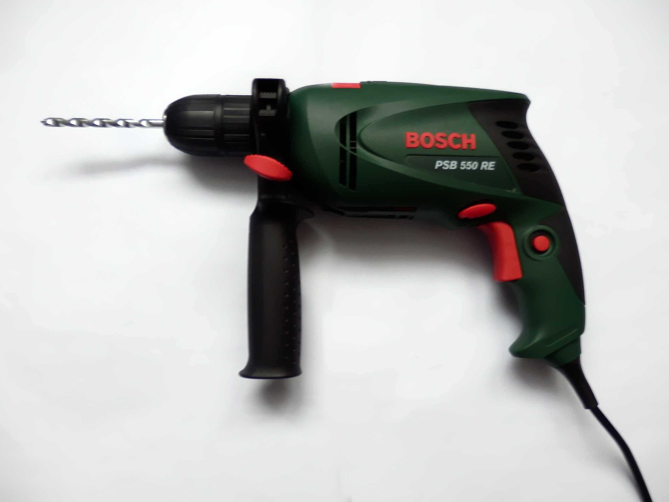 Bosch power hammer drill model PSB 550 RE